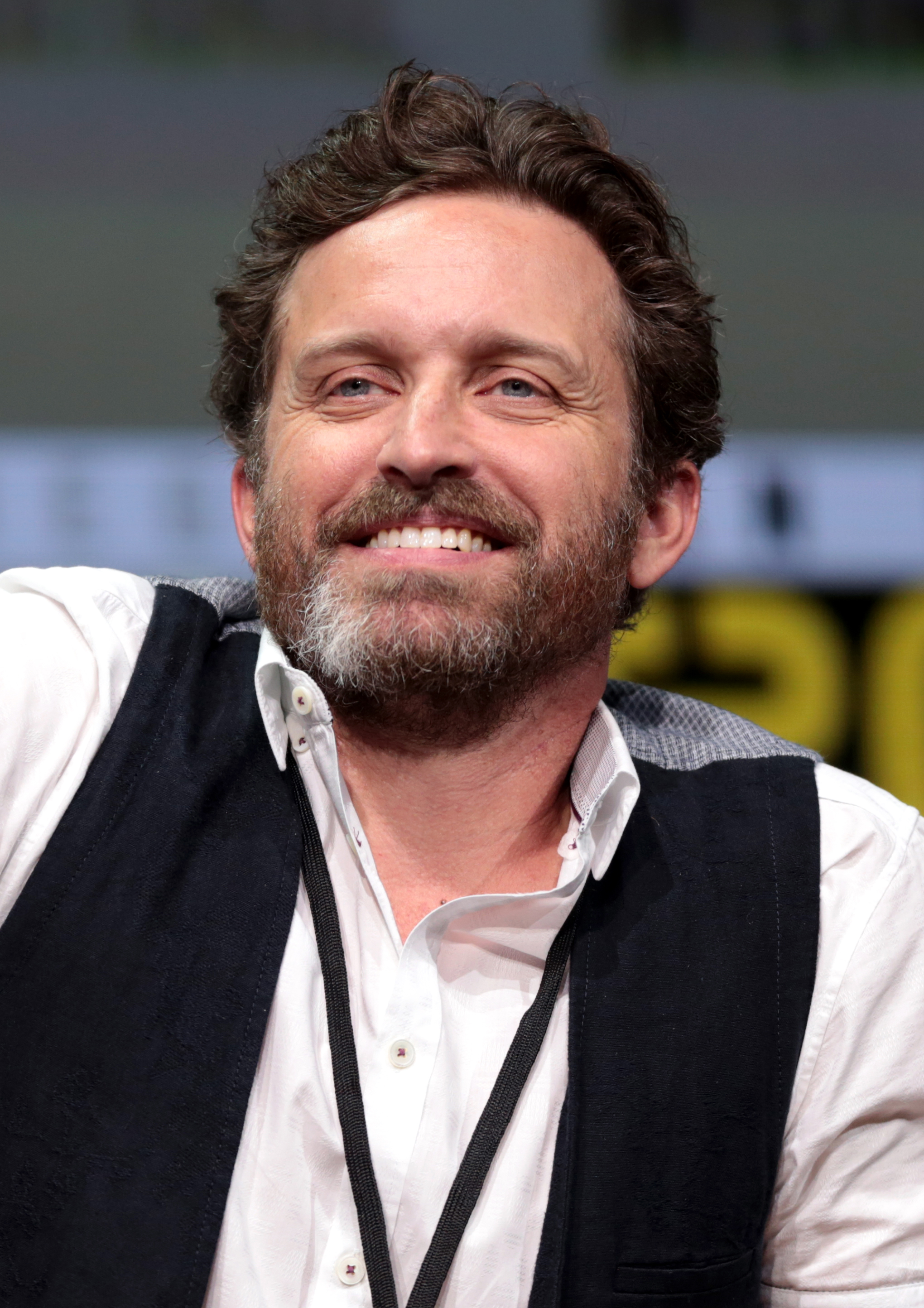 Rob Benedict speaking at the 2017 San Diego Comic-Con International in San Diego, California.